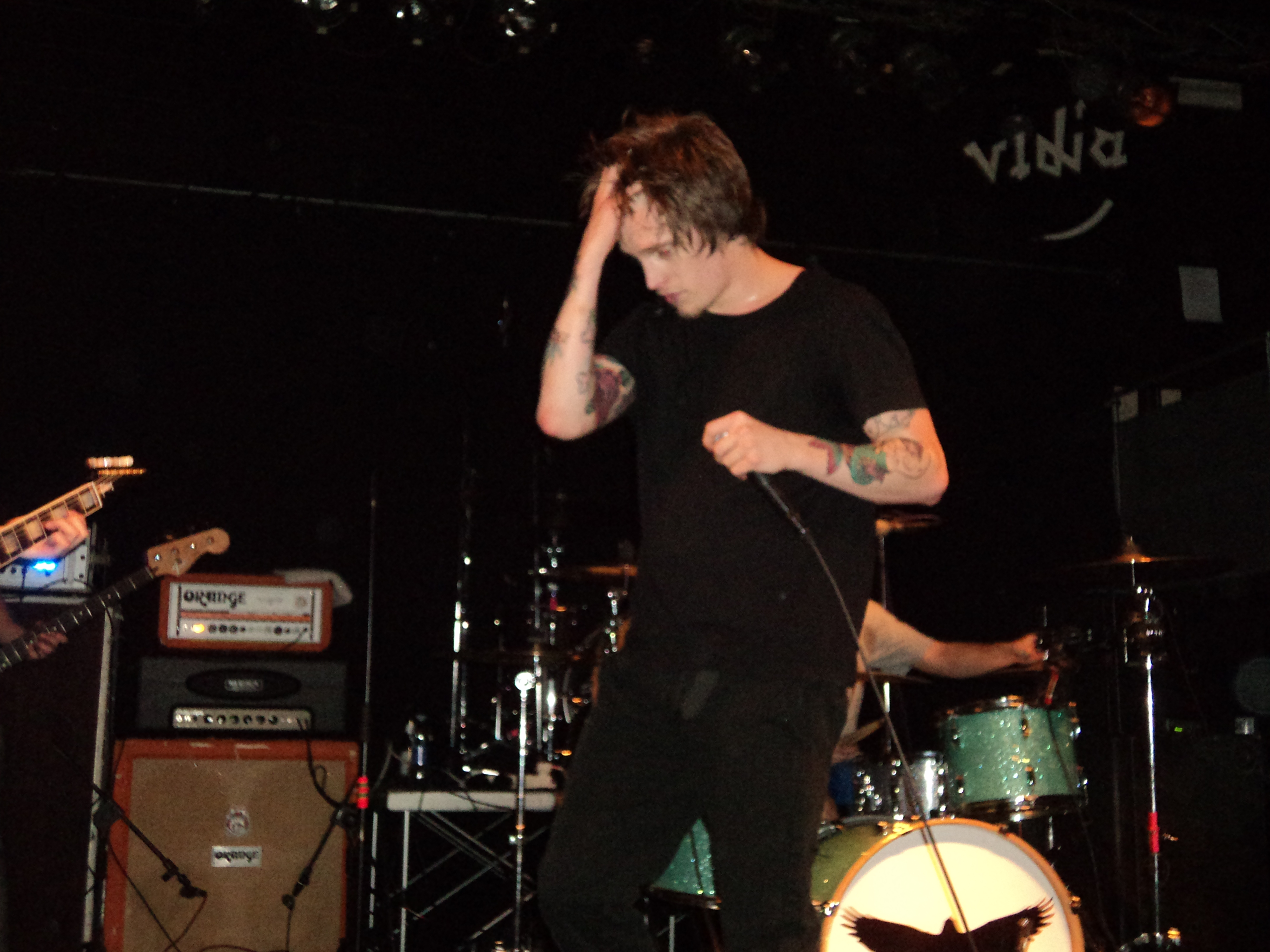 Dan Brow, ex vocalist for We Are The Ocean